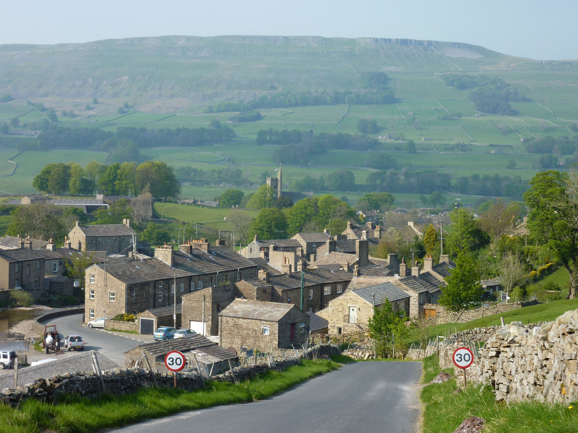 The village of Gayle in the Yorkshire Dales. Seen looking north towards Stags Fell. St Margaret's Church at Hawes in the centre of the picture.